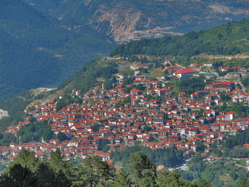 Metsovo village, Northen Greece.